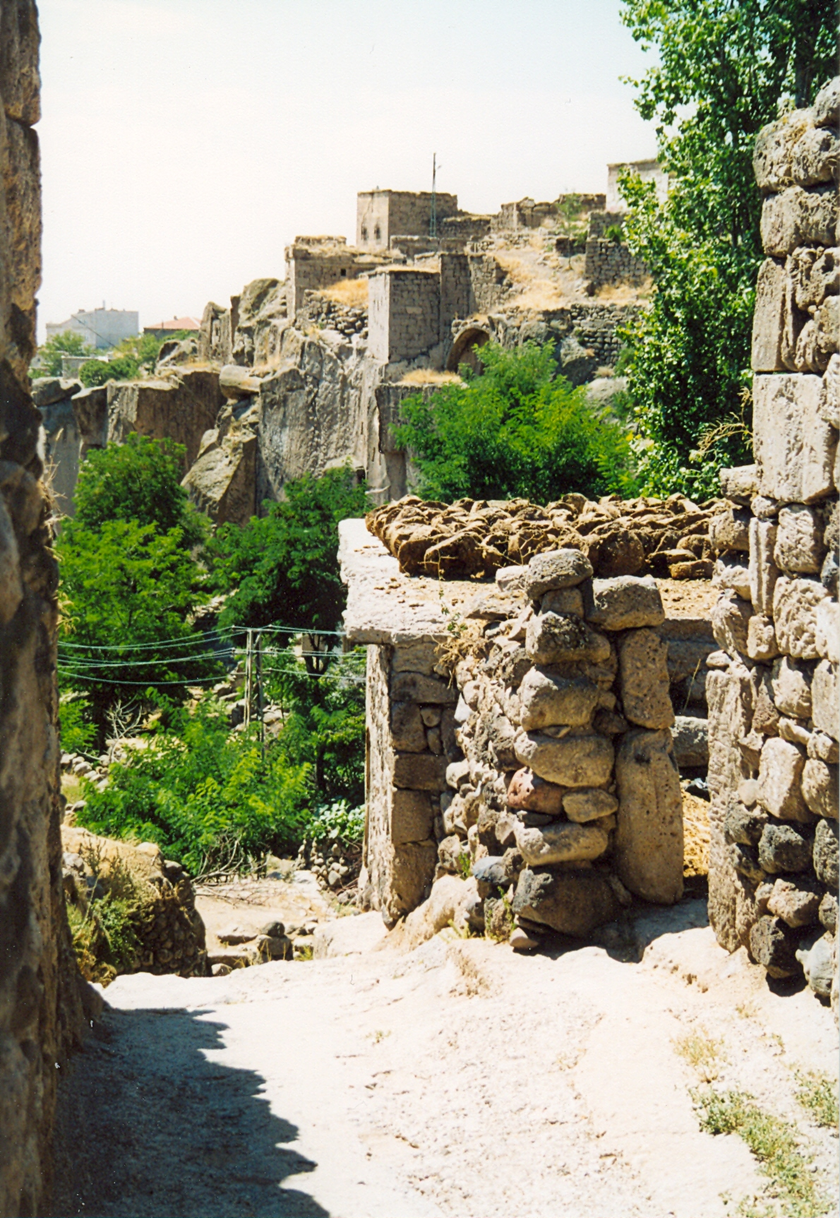 Güzelyurt, Turkey.